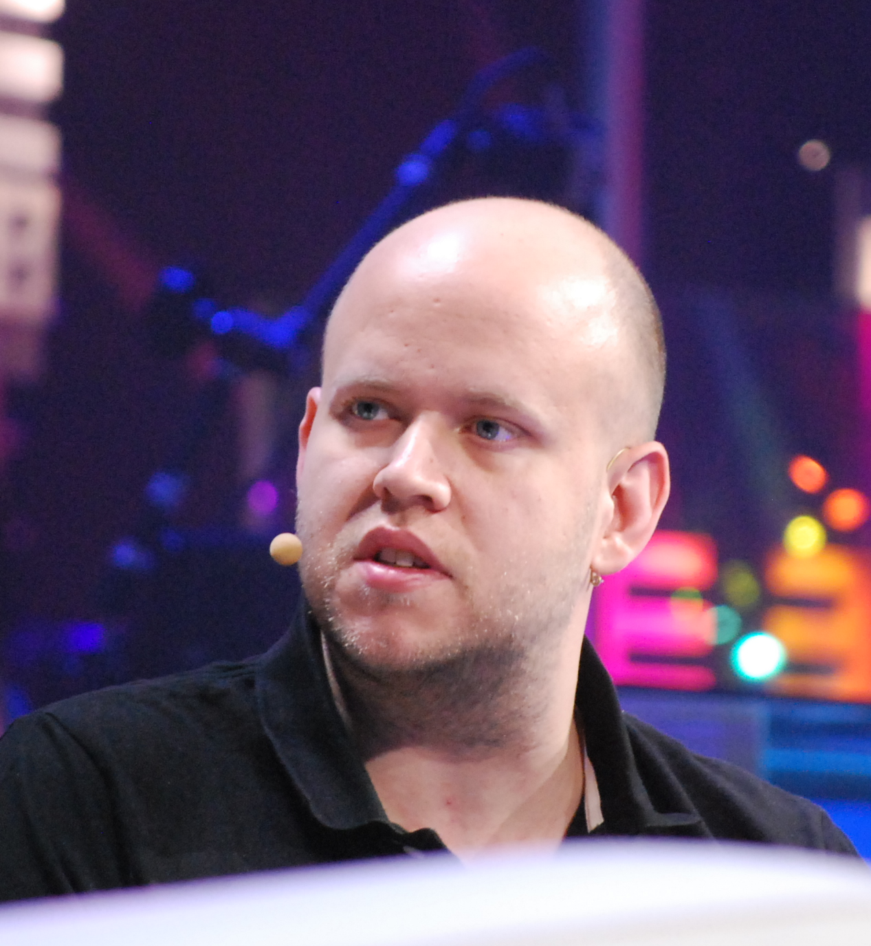 Daniel Ek, answering questions during an interview.